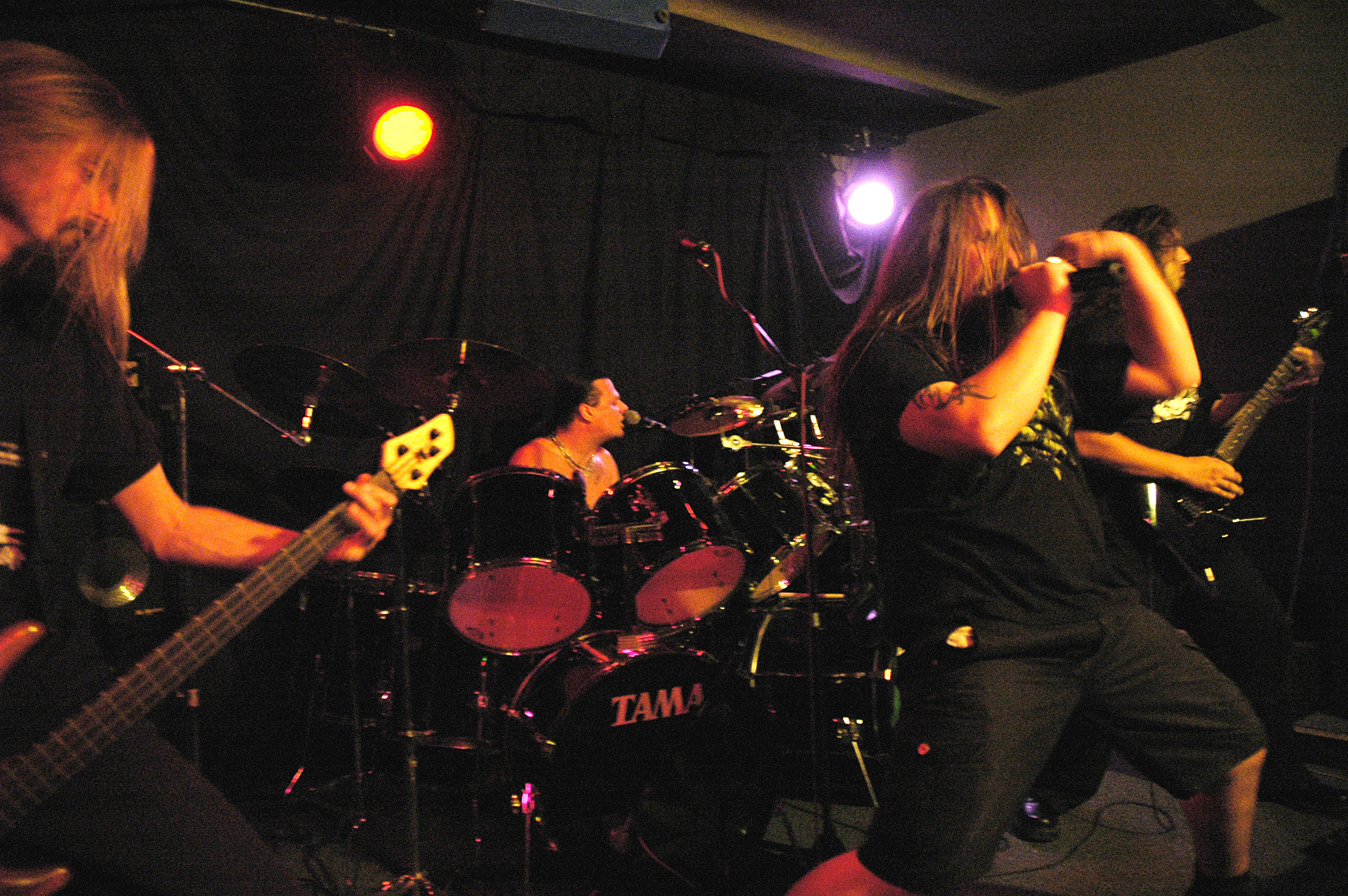 15 years of Maria Chuana